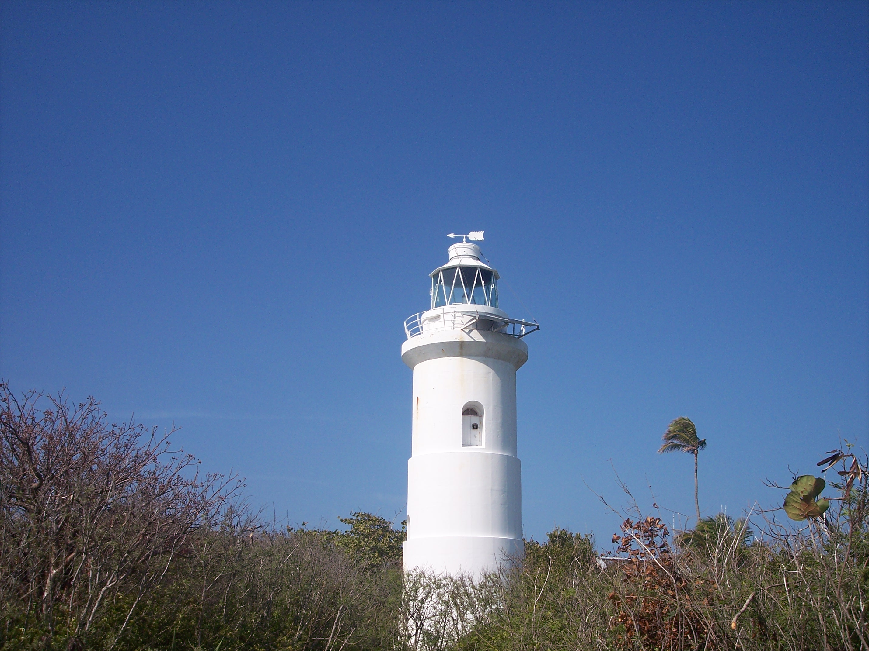 The lighthouse on Great Stirrup Cay.